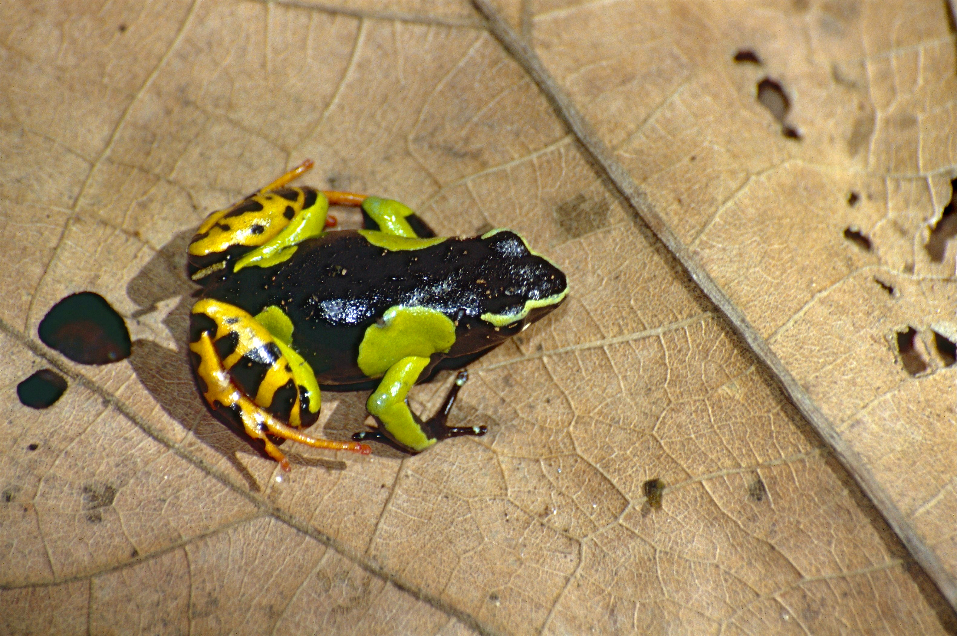 Mantadia Reserve, Perinet, MADAGASCAR Scanned Slide from 1998